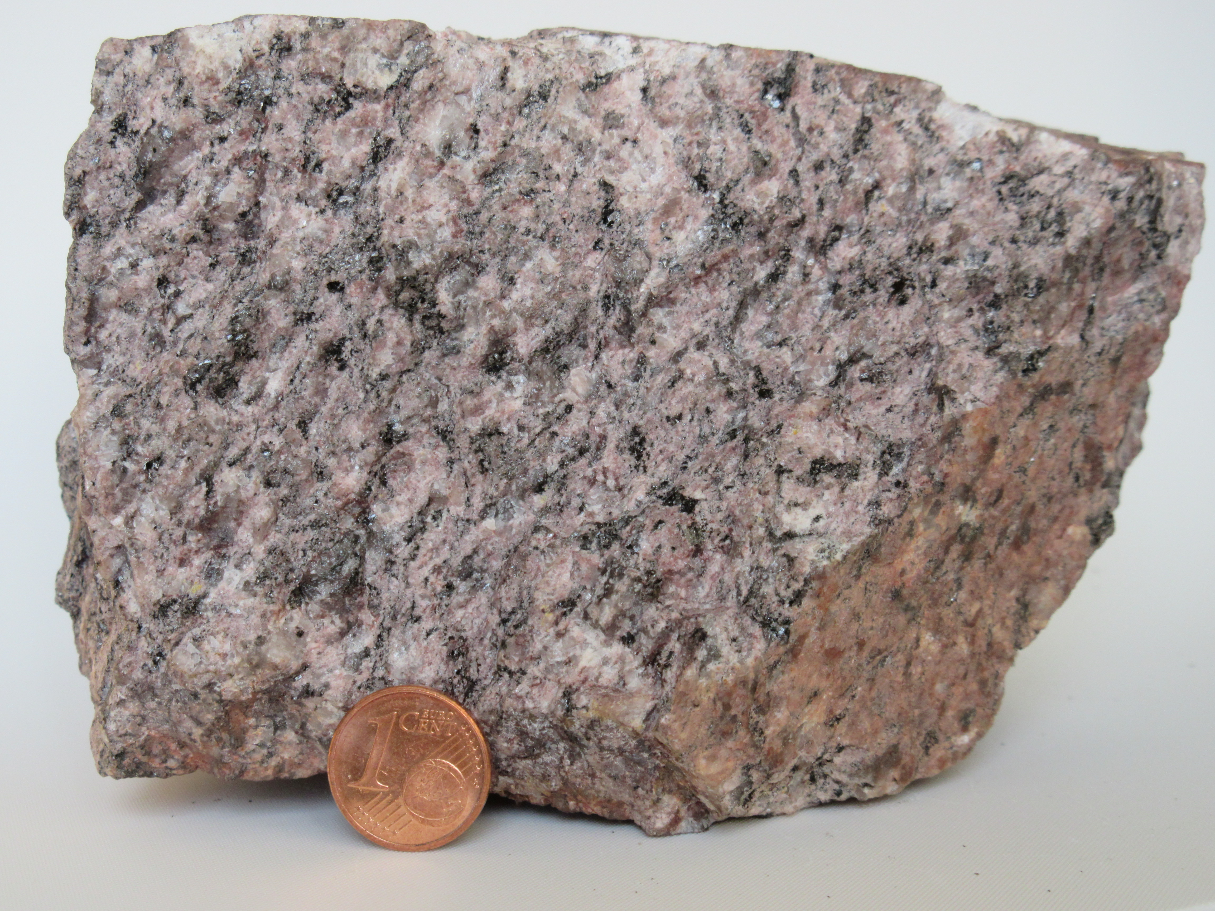 Rock type: orthogneiss („red gneiss“, metagranitoid); age: protolith possibly early Paleozoic (Cambro-Ordovician), gneiss Variscan (Carboniferous); provenance: eastern rim of Eastern Ore Mountains, ridge between Wilisch mountain and Hermsdorfer Berg mountain, southern rim of road from Hermsdorf village to Wilisch mountain, about 300 m west of outcrop of Wilisch basalt, from the spoil of a pipeline trench.